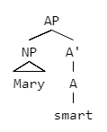 A structure of a small clause shown as a projection of the predicate, proposed by Stowell 1981, and others